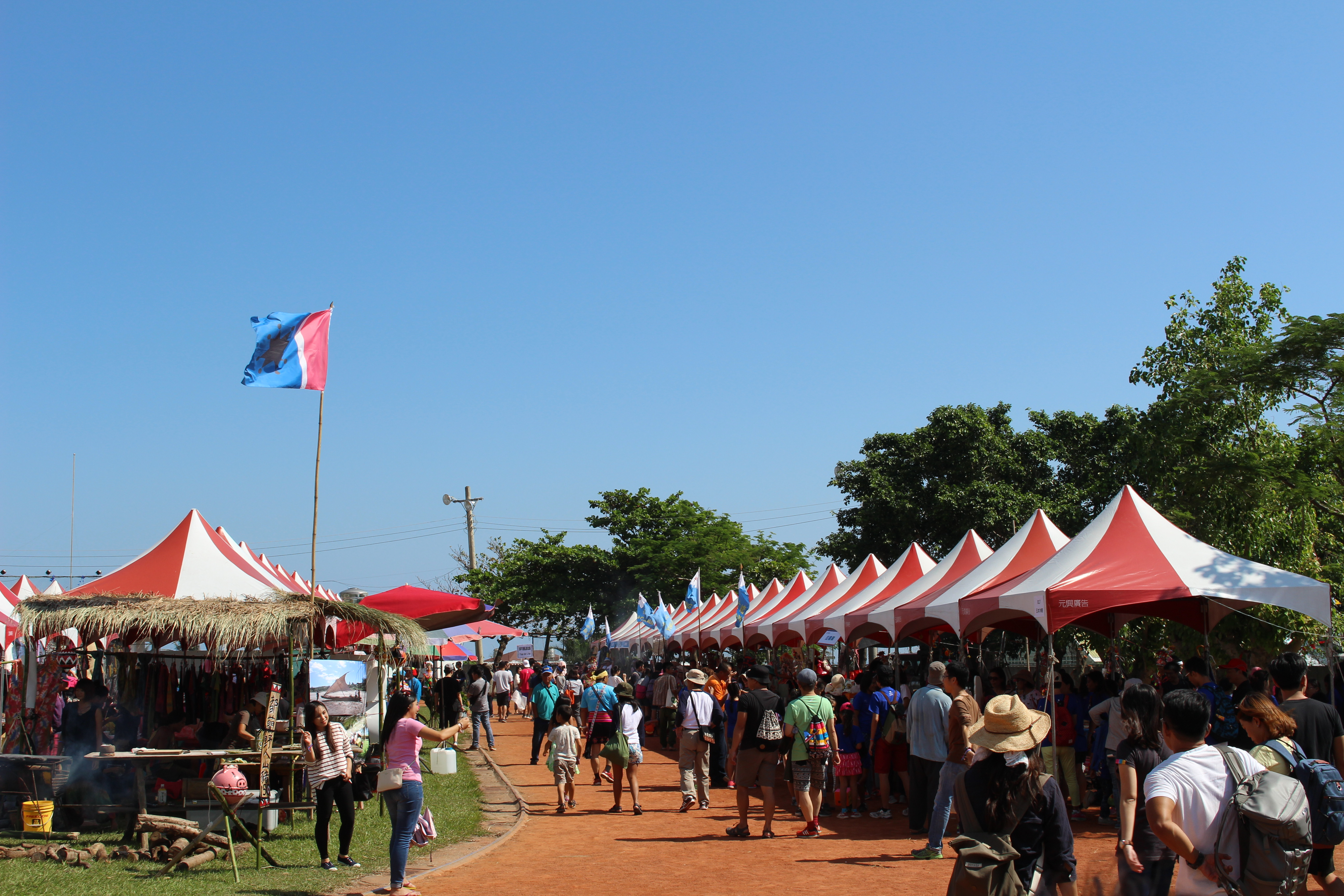 Vendor booths and festival flag at the 2016 Amis Music Festival (阿米斯音樂節) in Dulan Village (都蘭), Taitung County, Taiwan